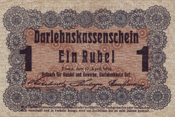 1 Rubel. Scan of banknote (printed in 1916), in use from 1916 until the end of 1918 in that part of Russia that was occupied by the Germans.